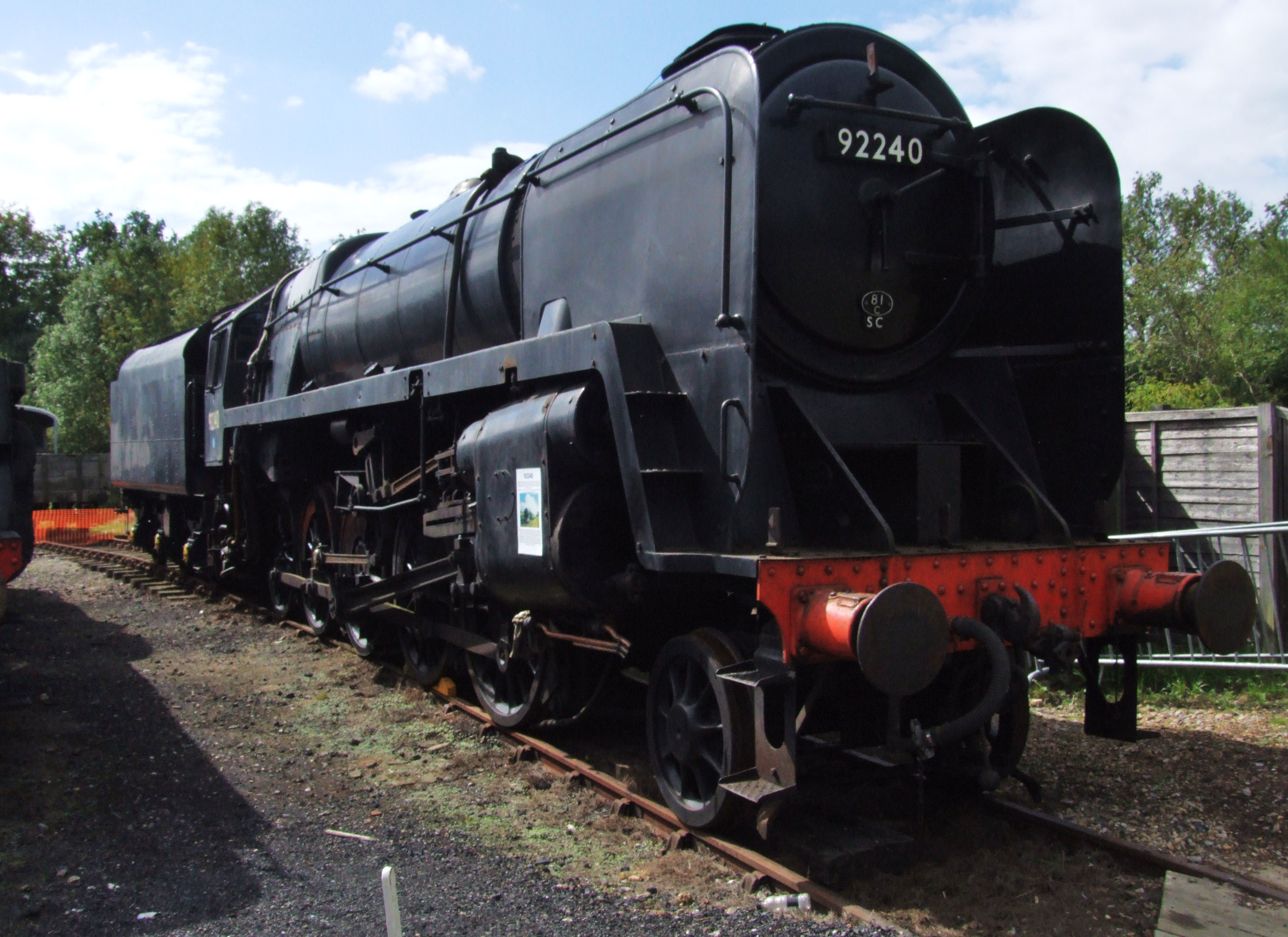 British rail standard 2-10-0 reposes in the sidings at Horsted Keynes.